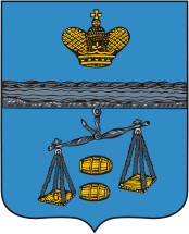 Sukhinichi (Kaluga oblast), coat of arms (1842)